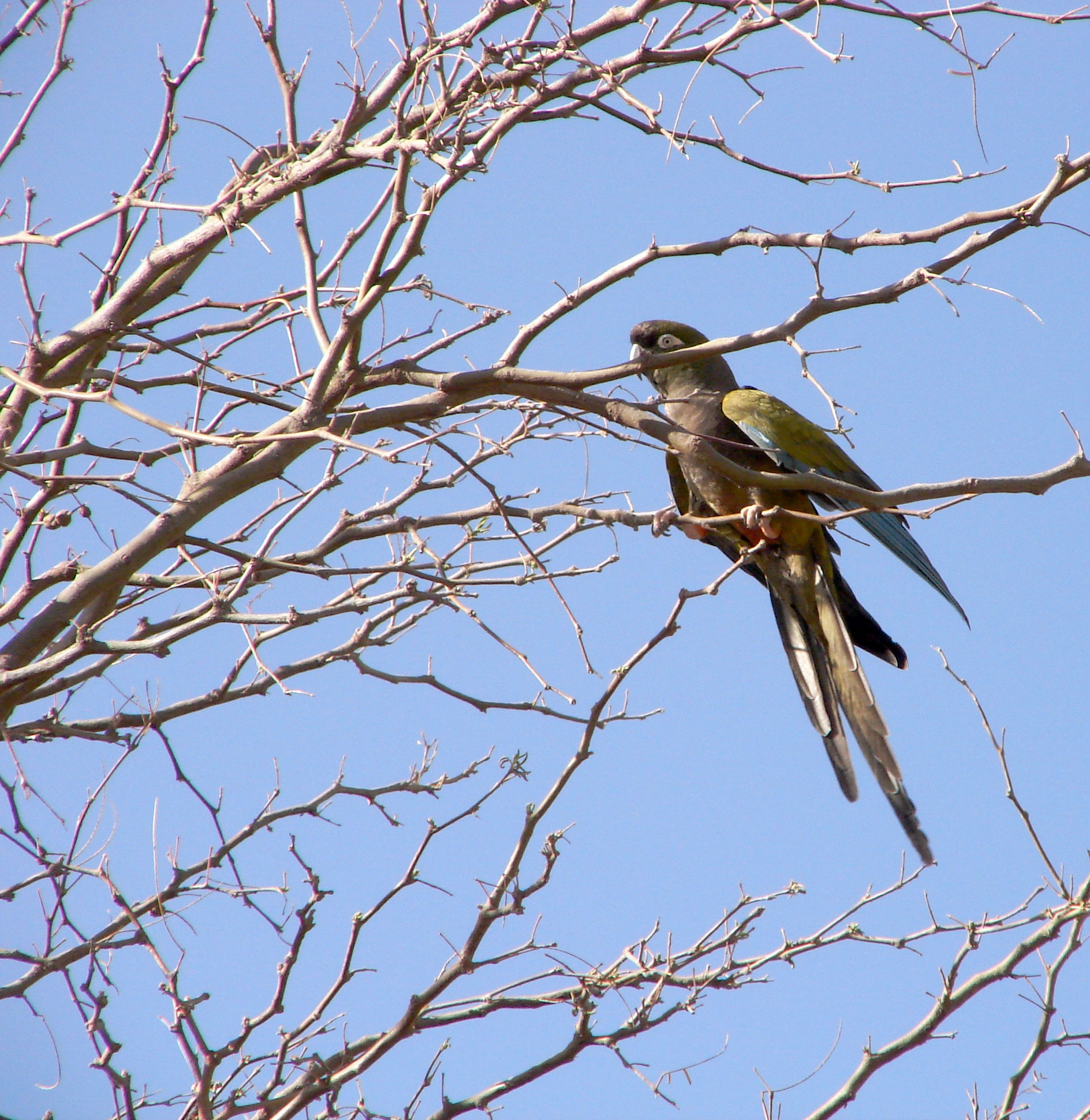 Burrowing Parakeet (Cyanoliseus patagonus) also known as the Patagonian Conure in Argentina. Salta, Argentina.